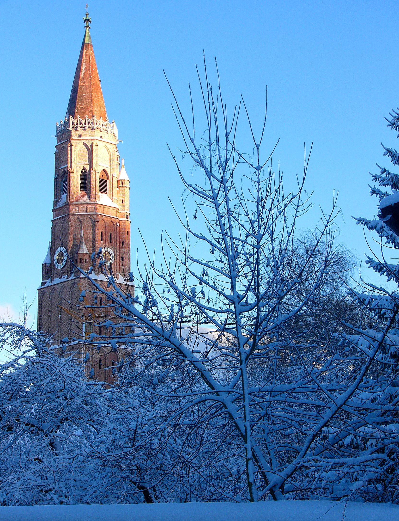 This is a photograph of an architectural monument.